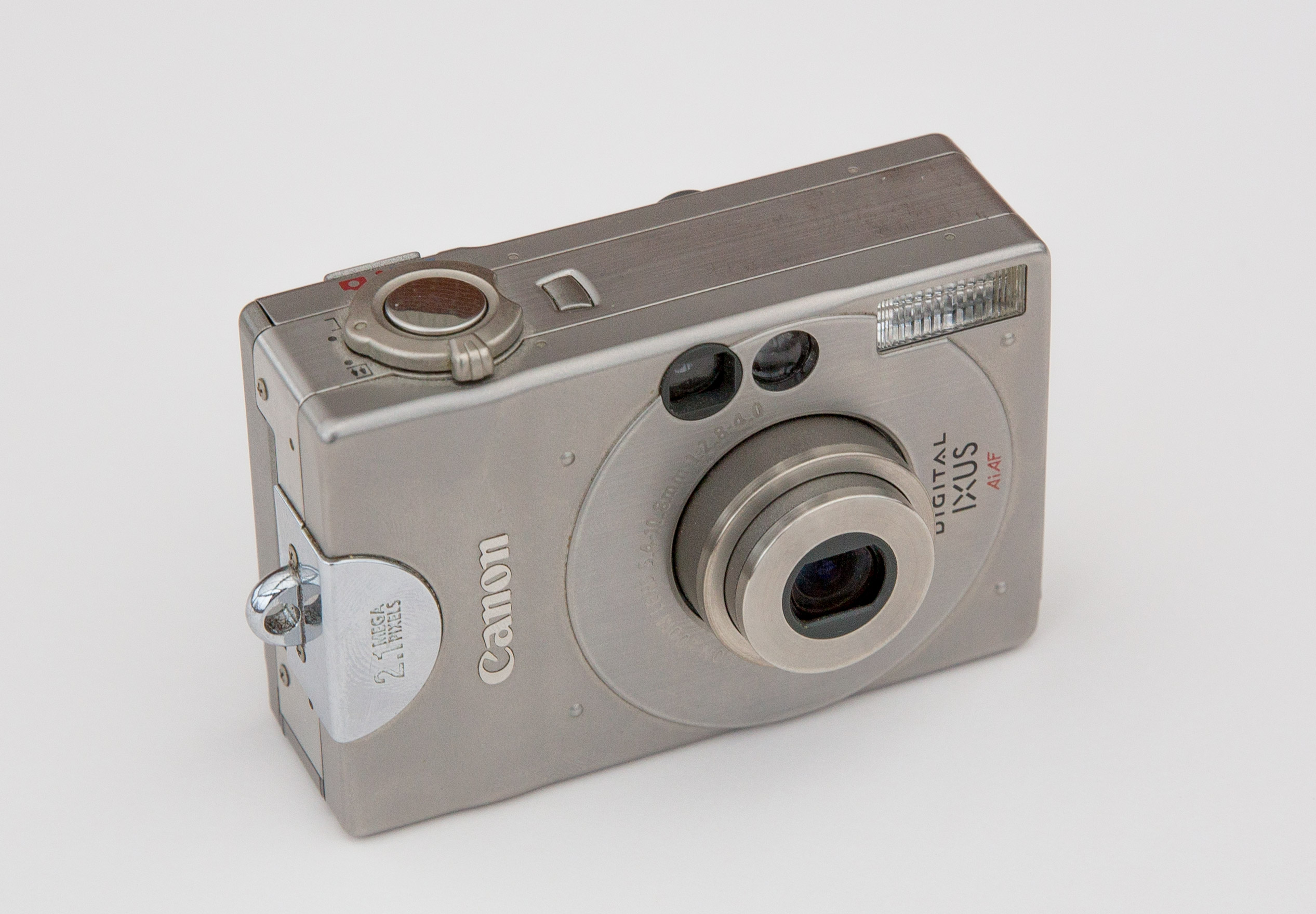 Canon Ixus front